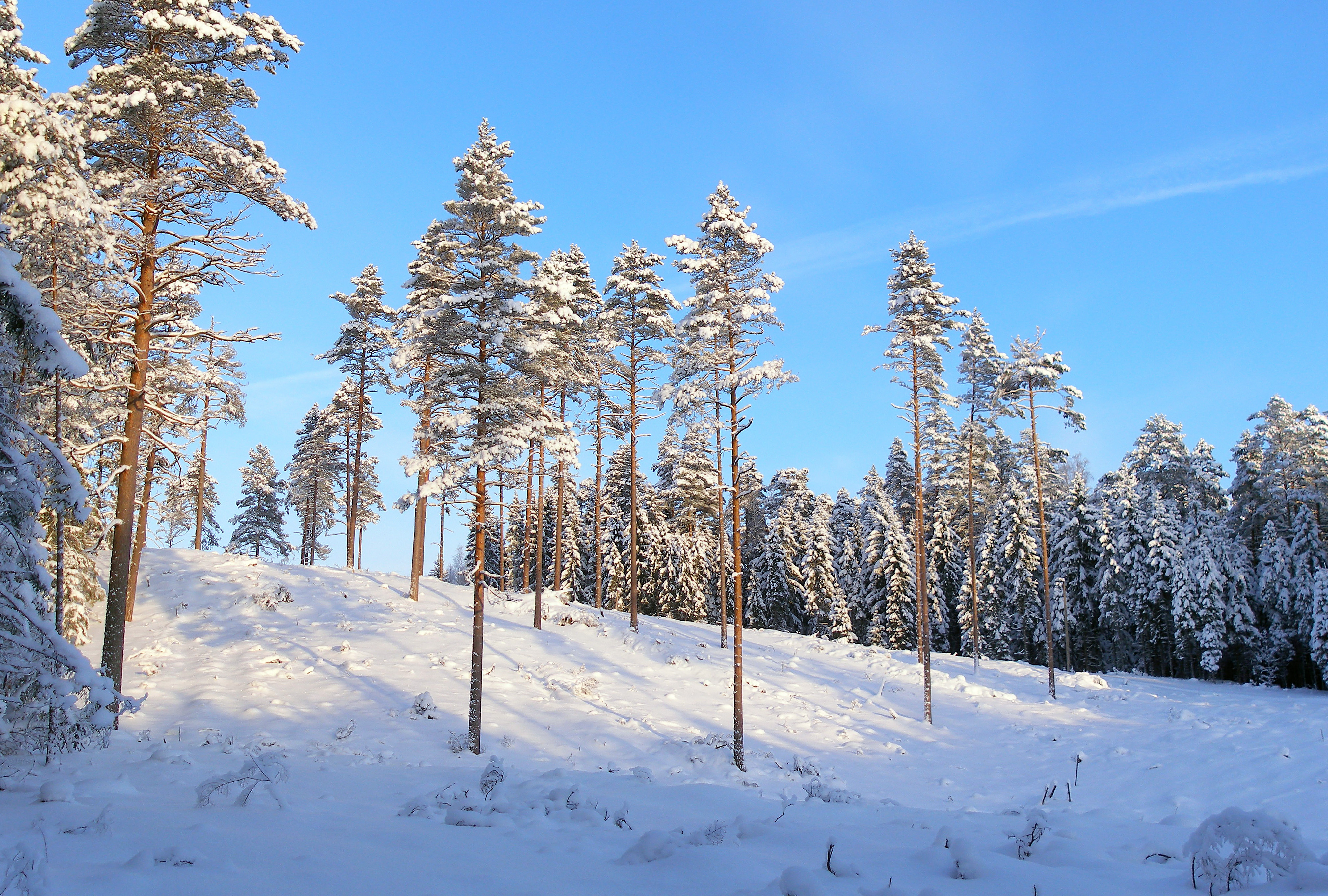 A recently logged stand with seed trees (Pinus sylvestris). Near Aegviidu, Estonia.